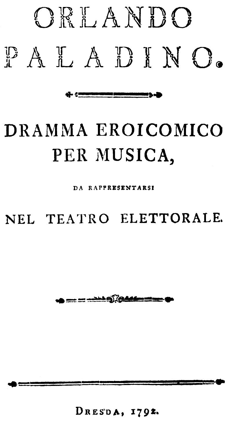 Joseph Haydn - Orlando paladino - italian title page of the libretto - dresden 1792